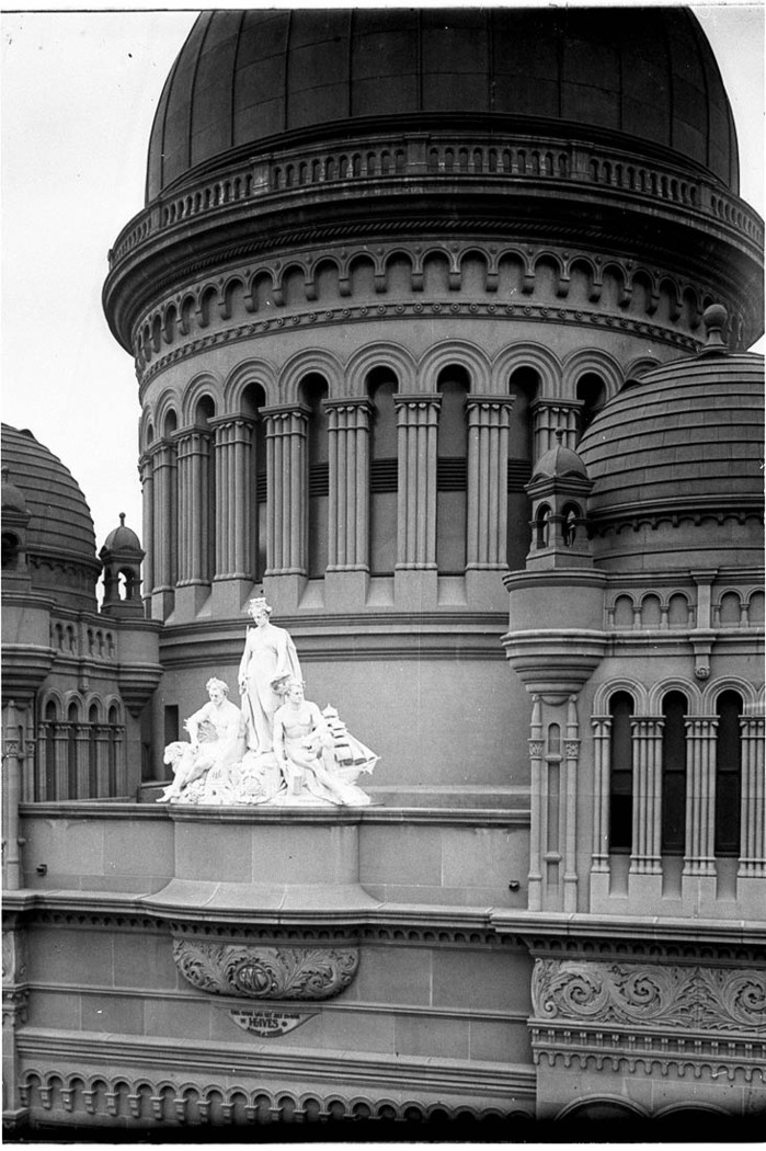 Main dome of QVB and marble sculpture by William Priestly MacIntosh